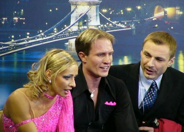 Tatiana Navka, Roman Kostomarov and their coach Alexander Zhulin at the 2004 European Figure Skating Championships